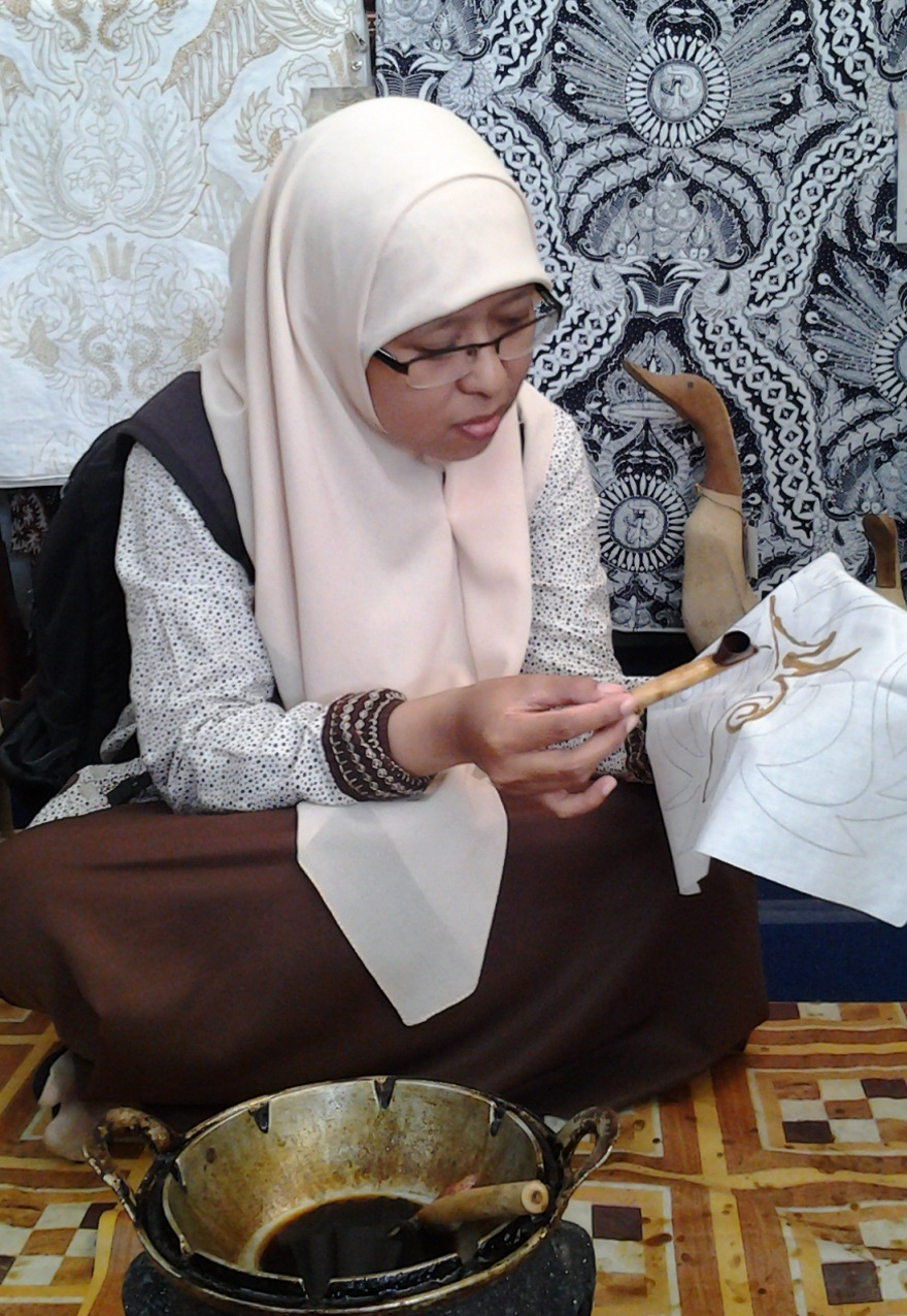 Batik processing: Drawing patterns with wax using canting.